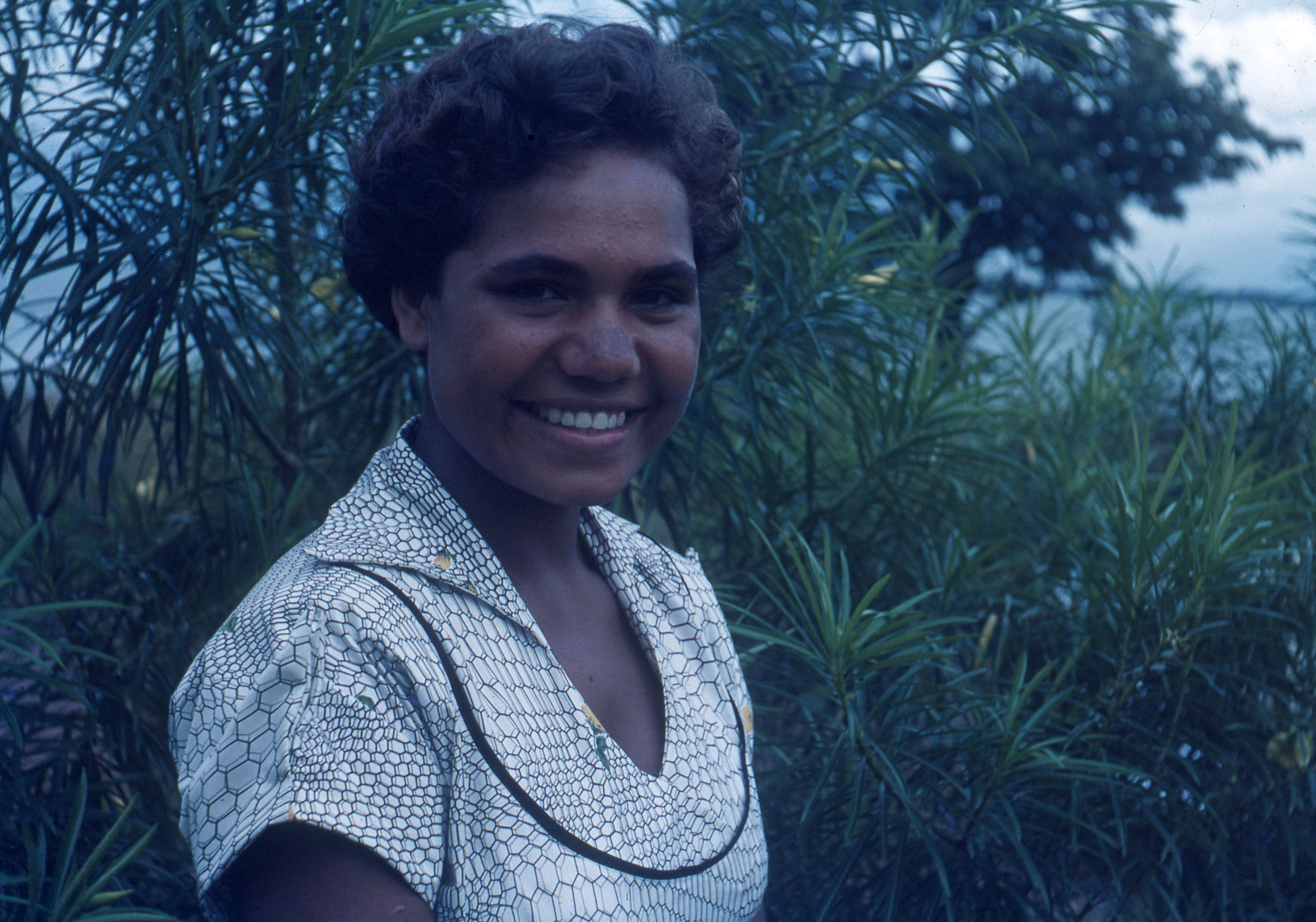 Ngarla Kunoth (Rosalie Kunoth-Monks) who played the lead role in Australian film Jedda.